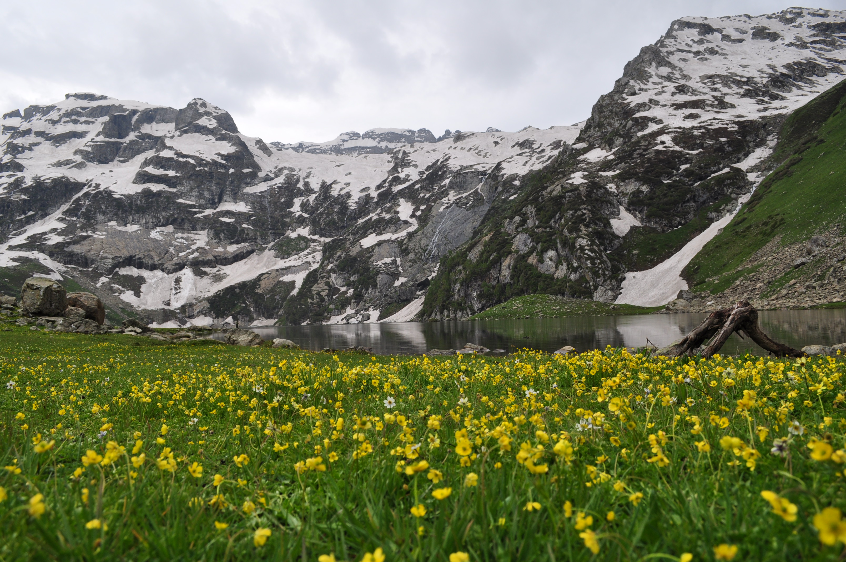 Sheera Sir, base camp for Mount Harmukh